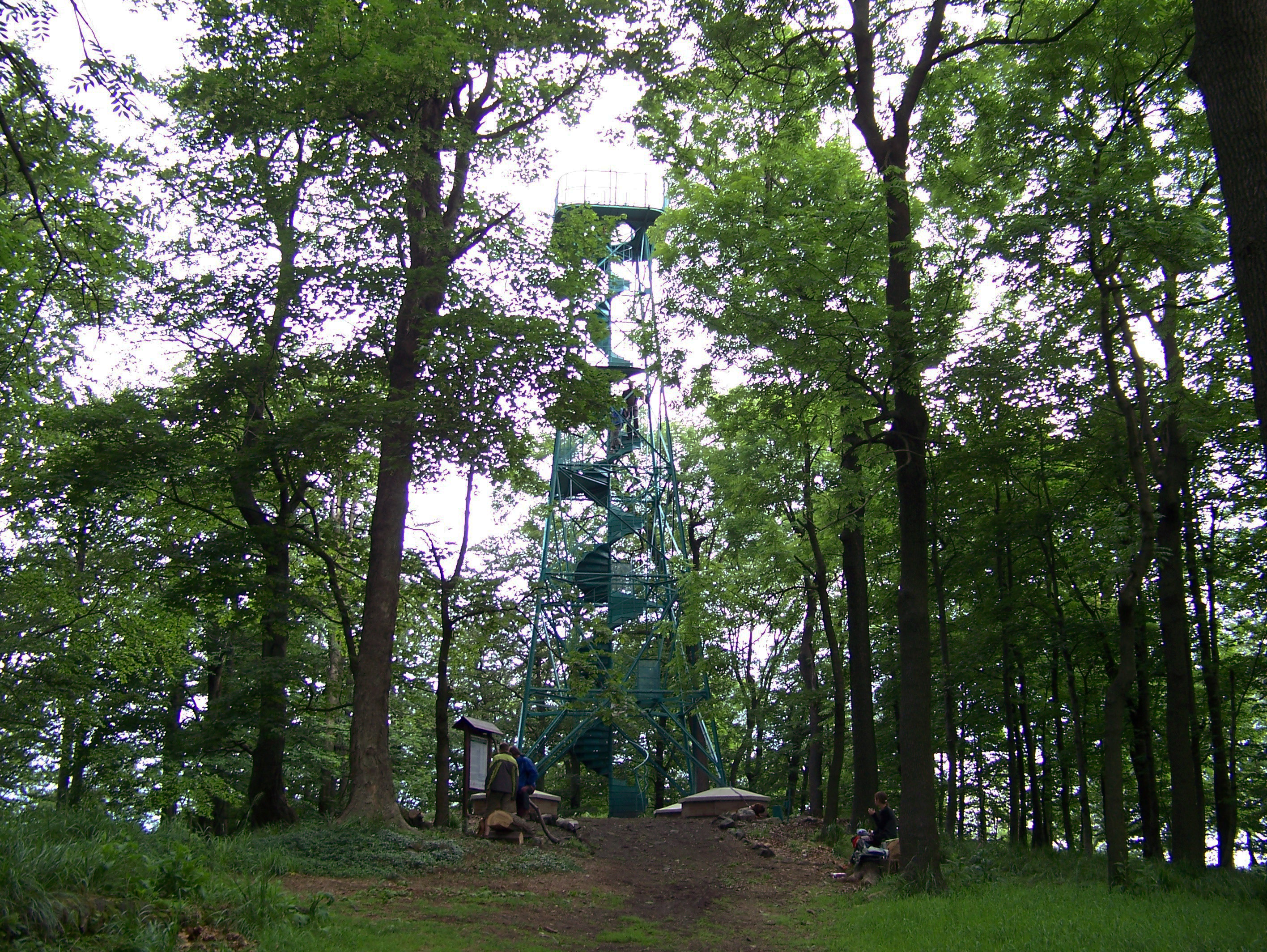 In 2008 newly erected steel observation tower on top of the Studenec mountain. See also original tower